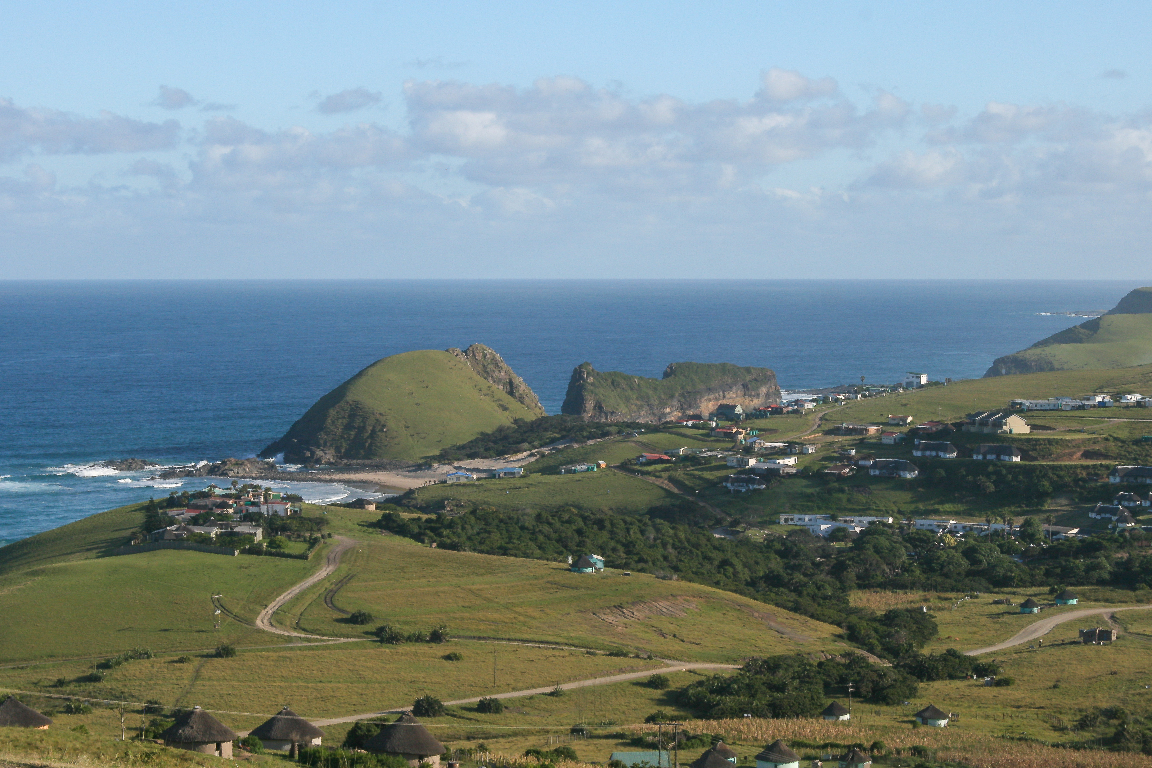 This is an image with the theme "Africa on the Move or Transport" from: South Africa